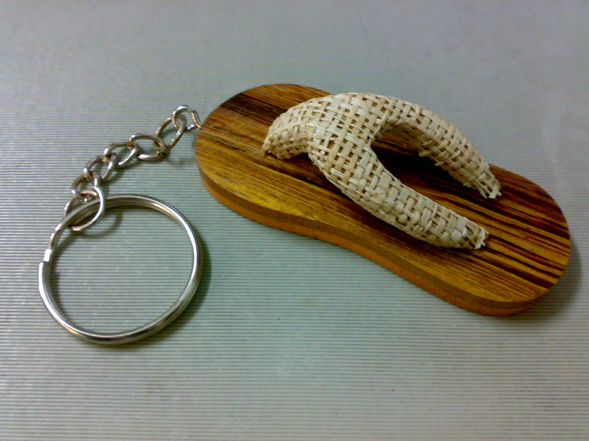 Souvenir sandal keychain from the Philippines.